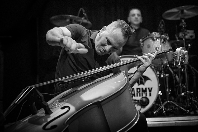 Steijpovic playing bass with Tiger Army at Dynamo Eindhoven in 2016